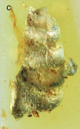 Euthema hesoana Asato and Hirano, sp. nov. from mid-Cretaceous Burmese amber. NMNS PM 28274. (c) Oblique abapertural view.